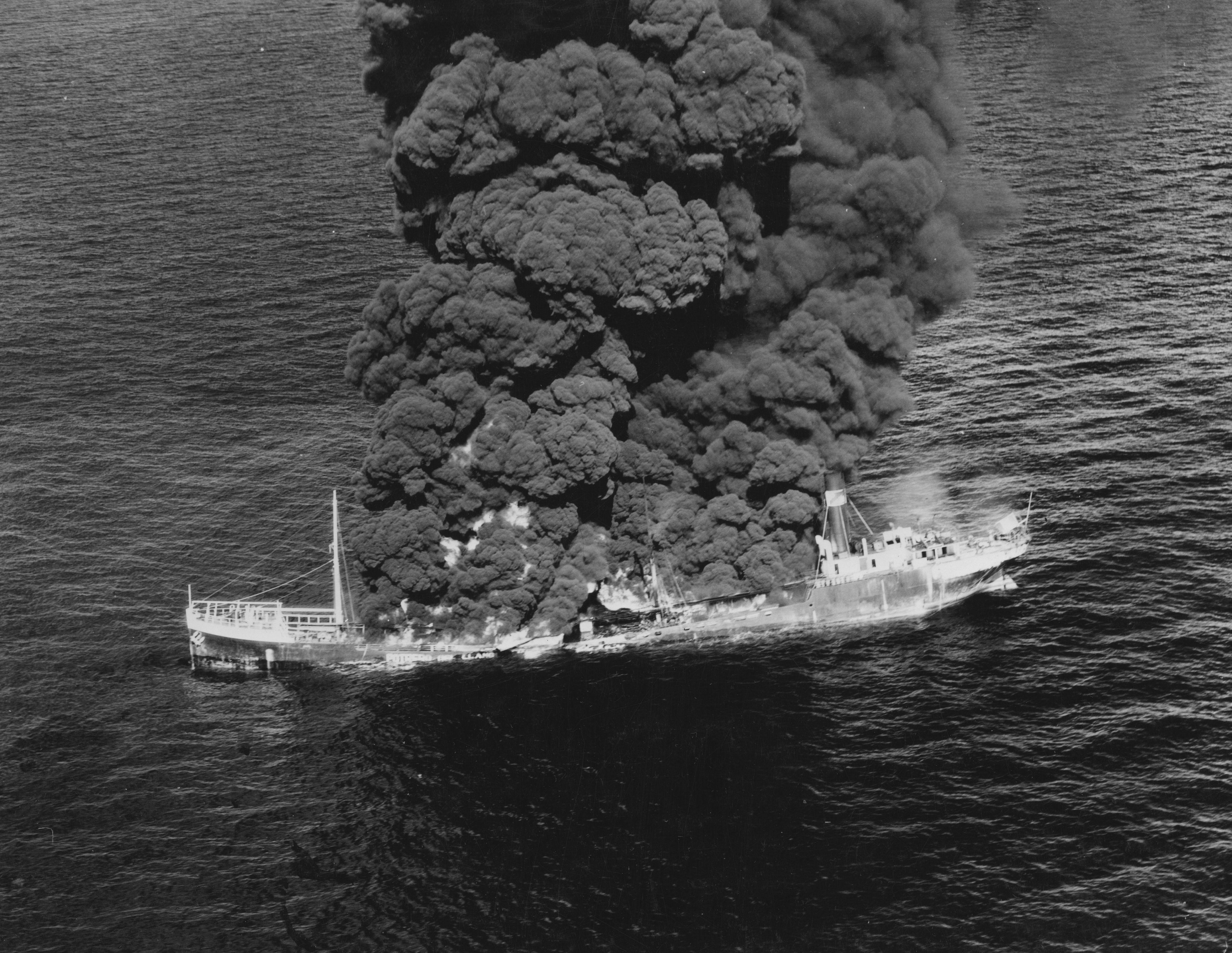 US Navy Photo 80-G-43431 - Mexican oil tanker SS Potrero Del Llano burns near Miami, Florida on May 14, 1942 after being torpedoed by German U-boat U-564